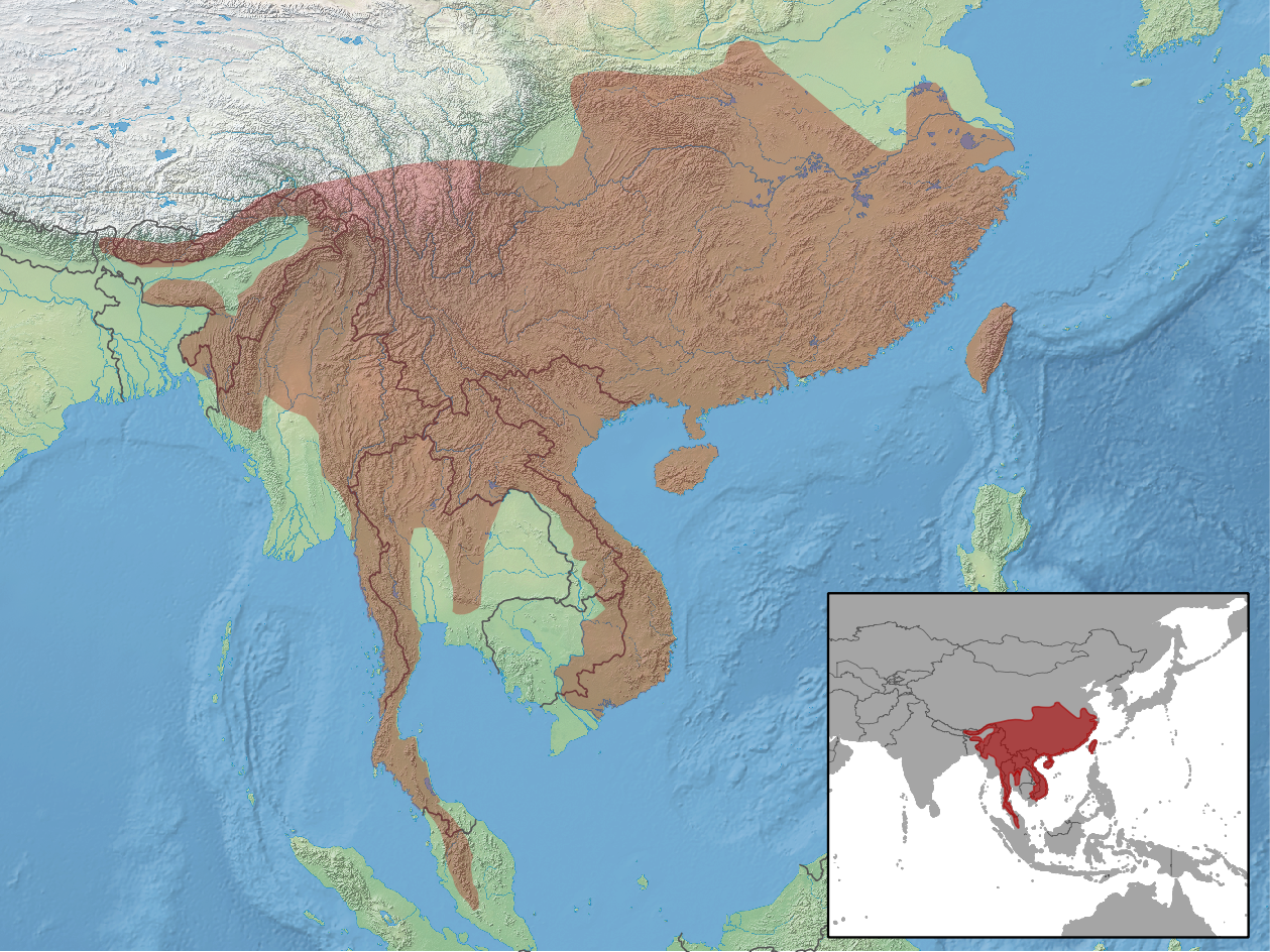 geographic distribution of Callosciurus erythraeus